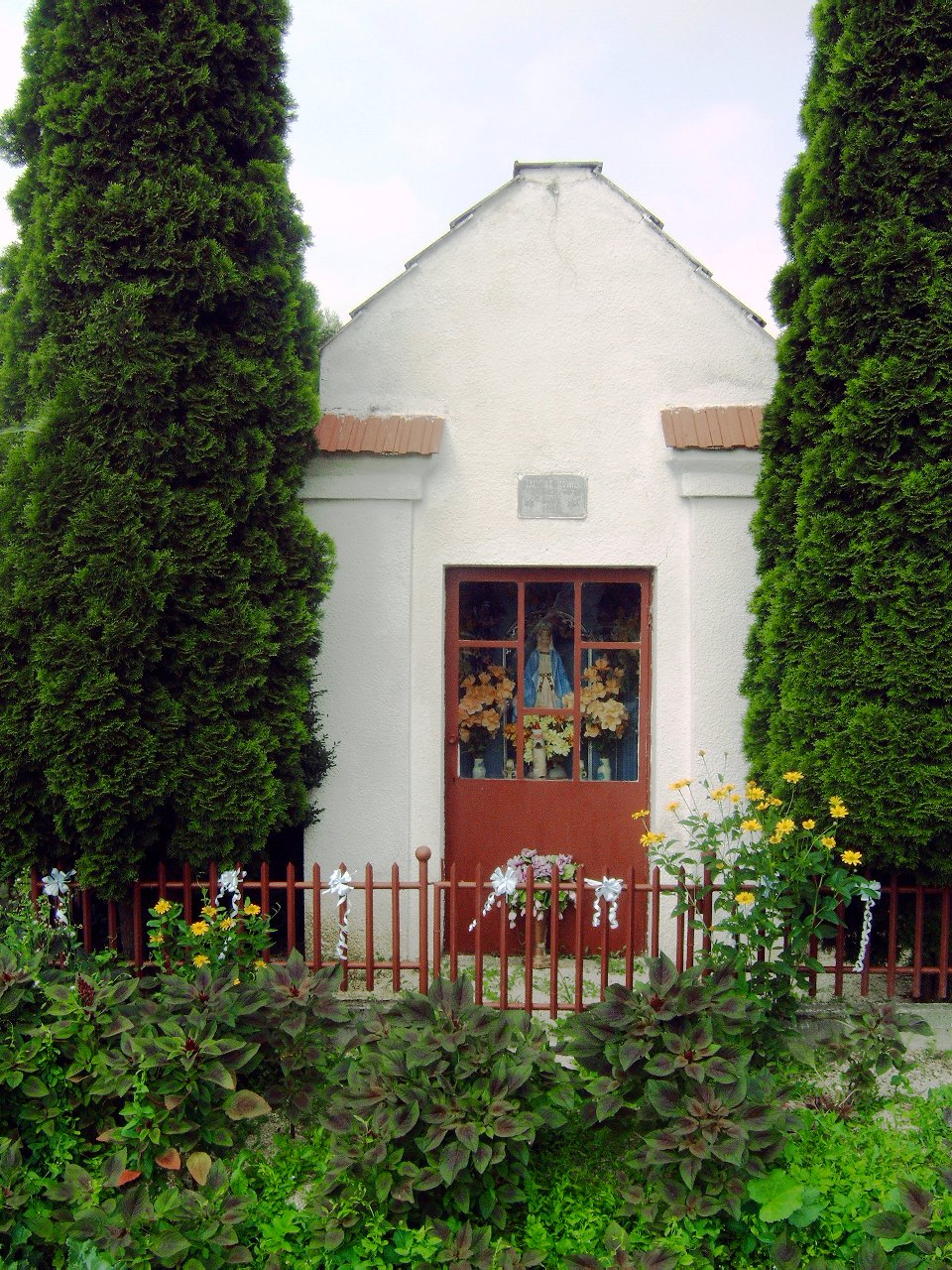 Kapliczka between Zdrchec and Zabawa (in powiat tarnowski, in Poland).